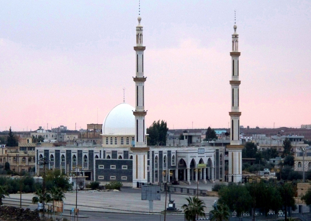 Abu Abū Bakr aṣ-Ṣiddīq mosque in Bosra, Syria.